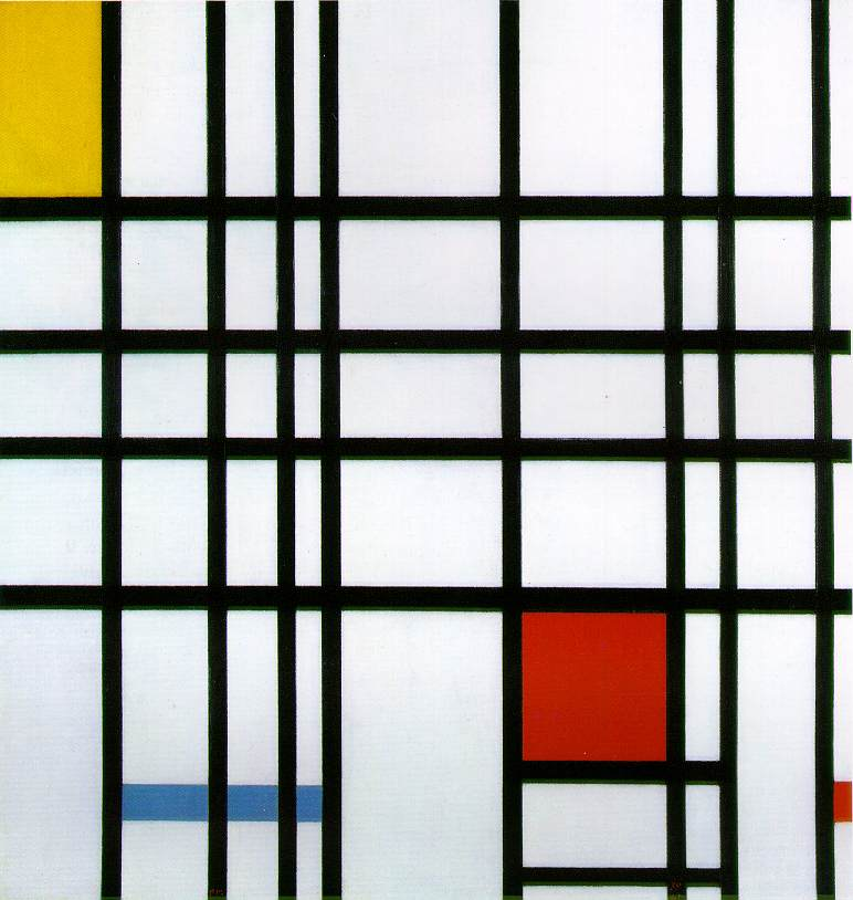 Composition-with-red-yellow-and-blue.jpg